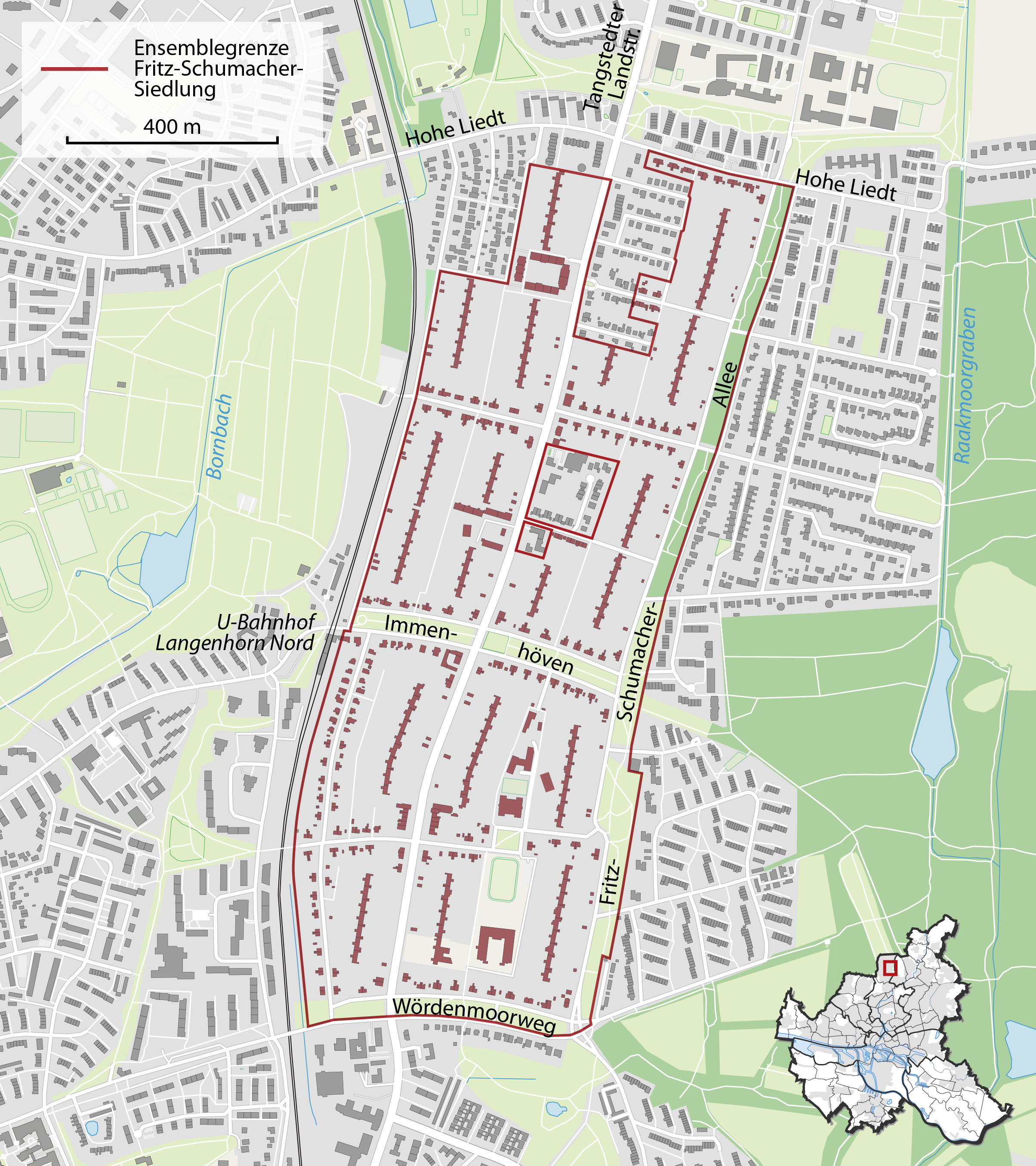 Map of Fritz-Schumacher-Siedlung in Hamburg-Langenhorn